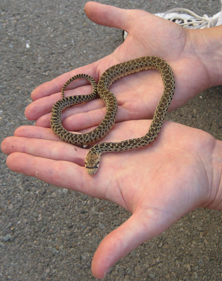 Pacific Gopher Snake (Pituophis catenifer catenifer). Taken in Novato, California, United States. Dead from unknown cause. From the size and the fact that it was found in May before the breeding season begins, assumably juvenile from previous year's clutch. Picture for size comparison.